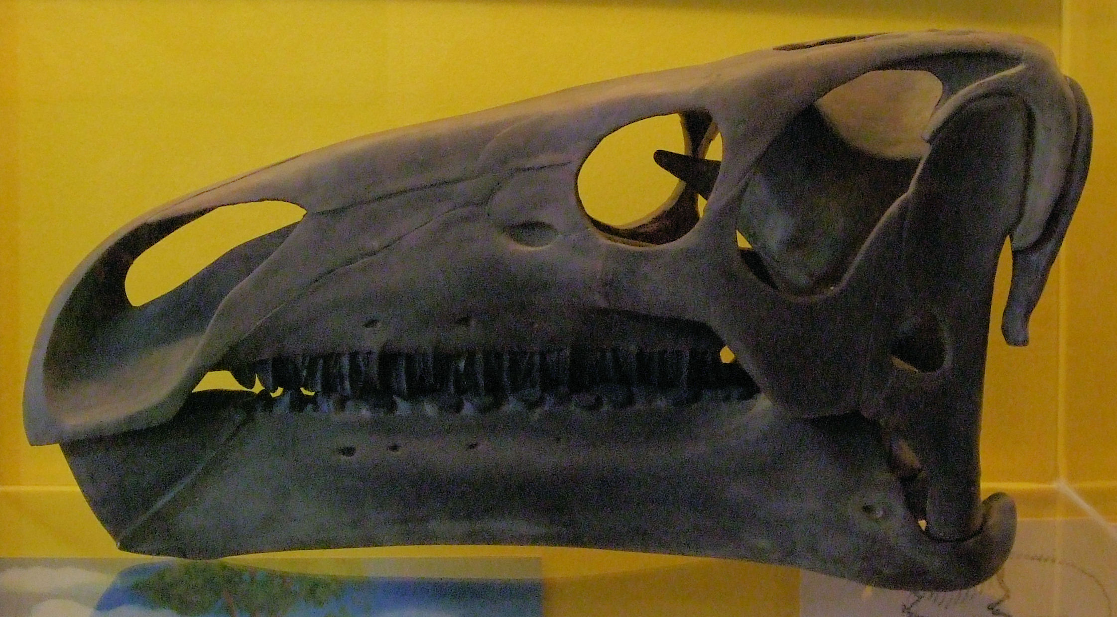 Based on British species that have been given their own genus, likely Mantellisaurus. Many species of Iguanodon have been named, dating from the Kimmeridgian age of the Late Jurassic Period to the Cenomanian age of the Late Cretaceous Period from Asia, Europe, and North America.